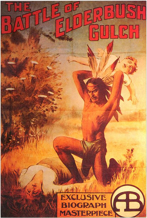 Movie poster for The Battle at Elderbush Gulch